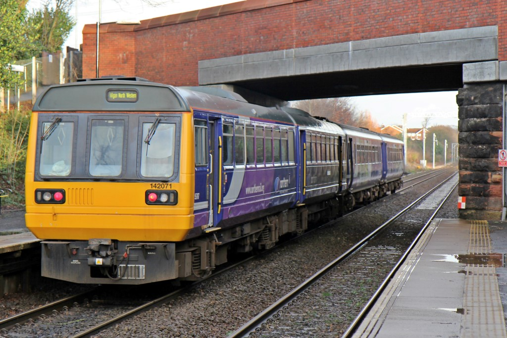 Northern Rail Class 142, 142071, Eccleston Park railway station